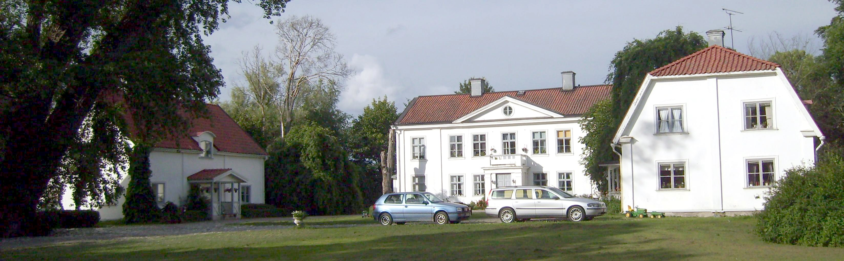 The Mansion Ringstad, outside Norrköping, Sweden